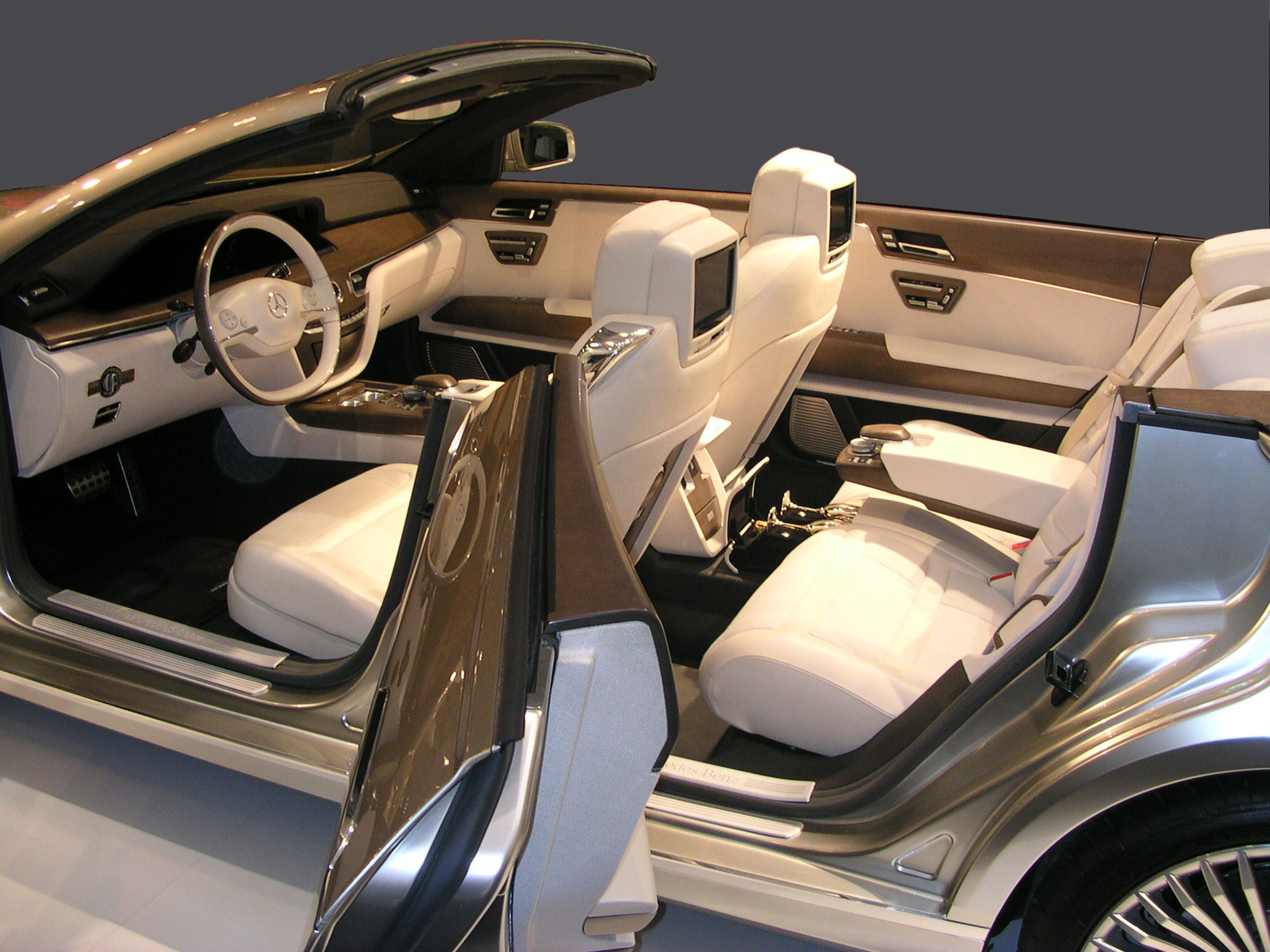 Techno-Classica 2007, Mercedes-Benz Concept Ocean Drive Convertible based on the Mercedes-Benz S 600 with twelve-cylinder-engine